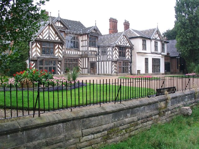 Wythenshawe Hall This picture is of Wythenshawe hall at SJ816897. The Building unfortunately is not open to the public but is available for weddings and functions.